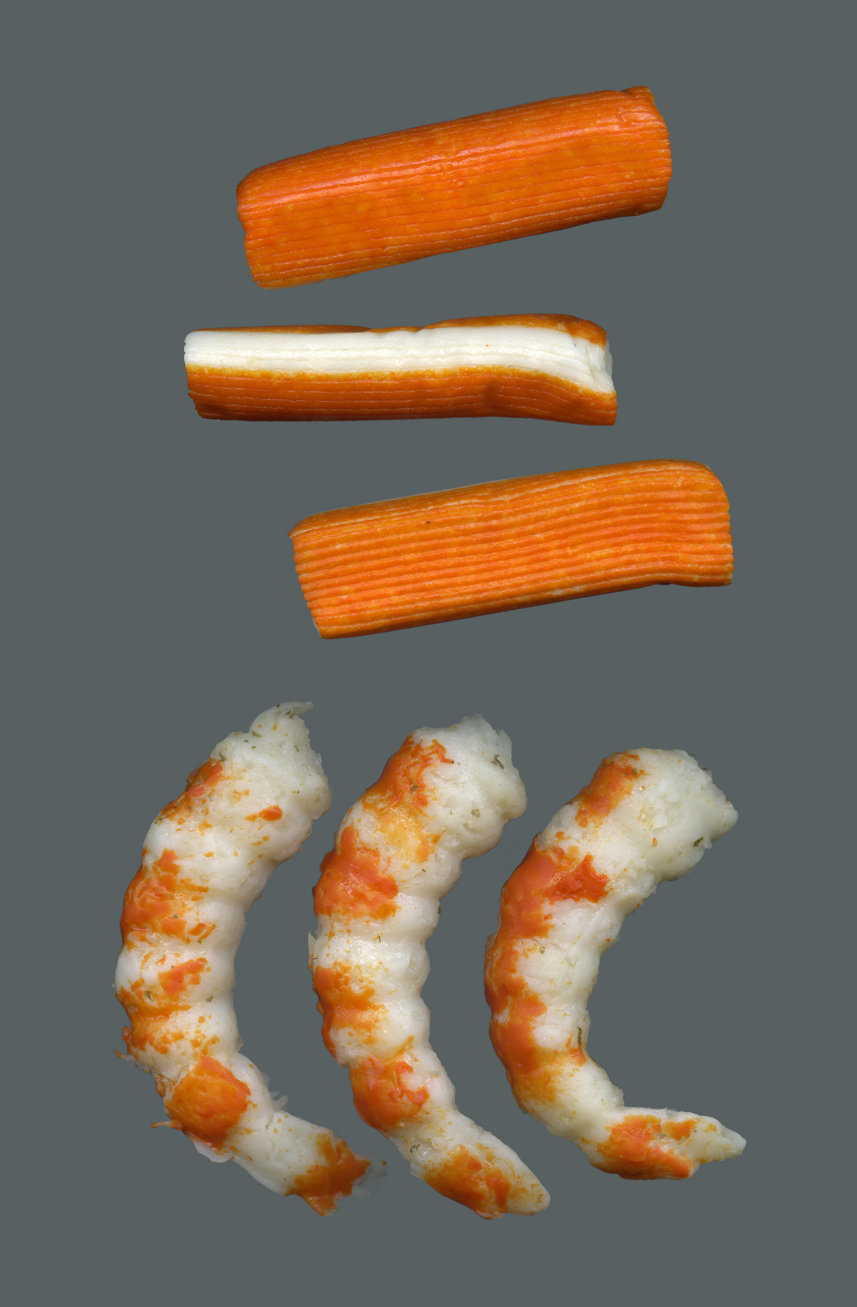 Surimi, fish meat.